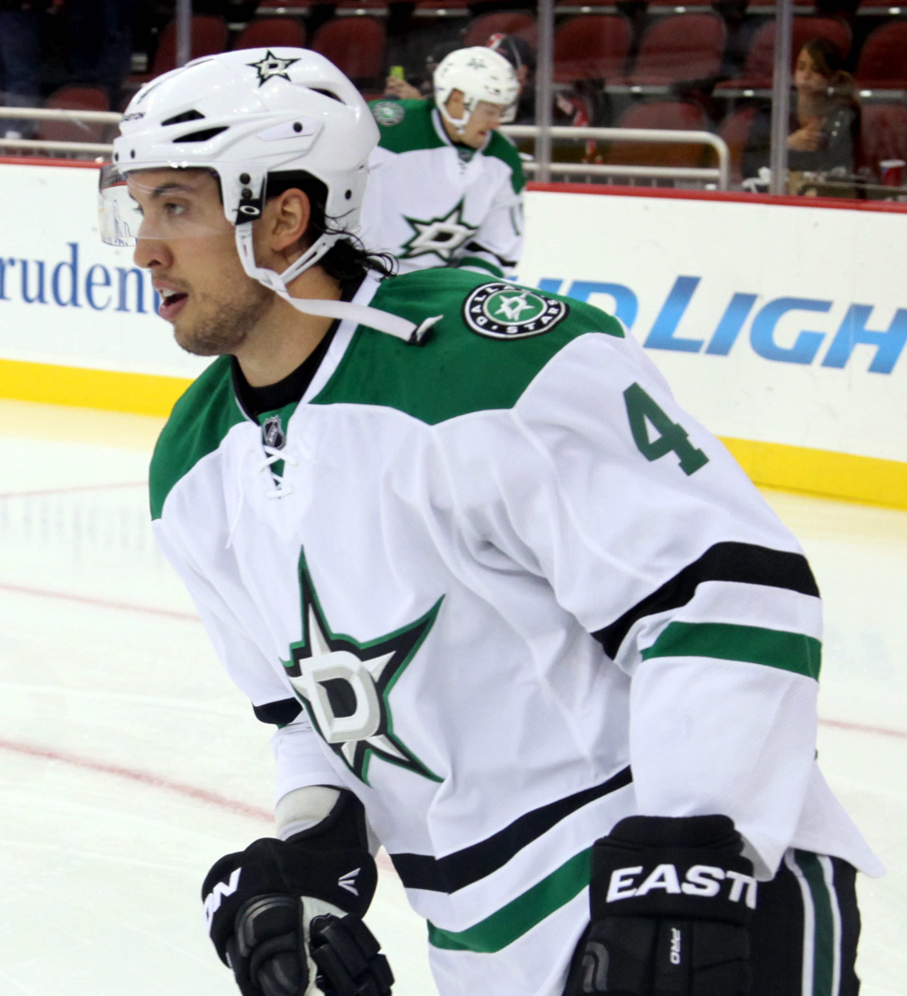 Dillon in October 2014.